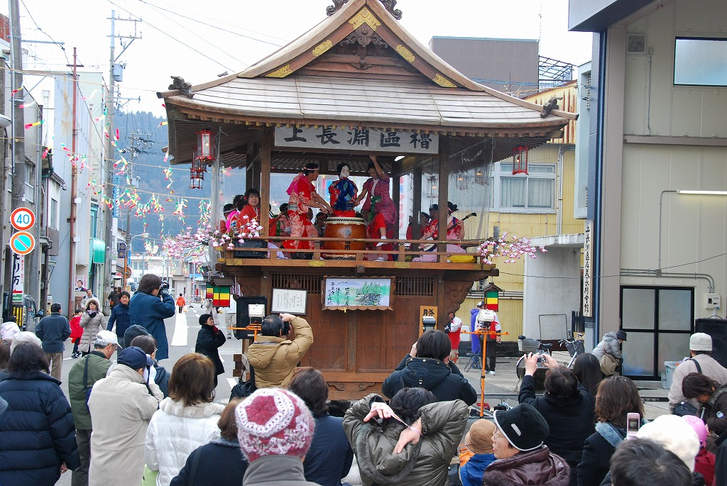 sagicho-matsuri